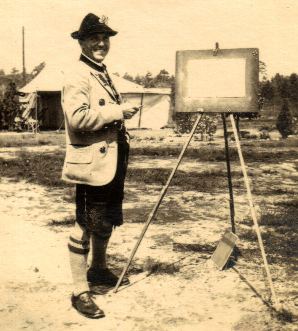 George Kenner, artist, German civilian World War I POW, at Frith Hill POW tent camp in 1915. Near Frimley, in Surrey, England.